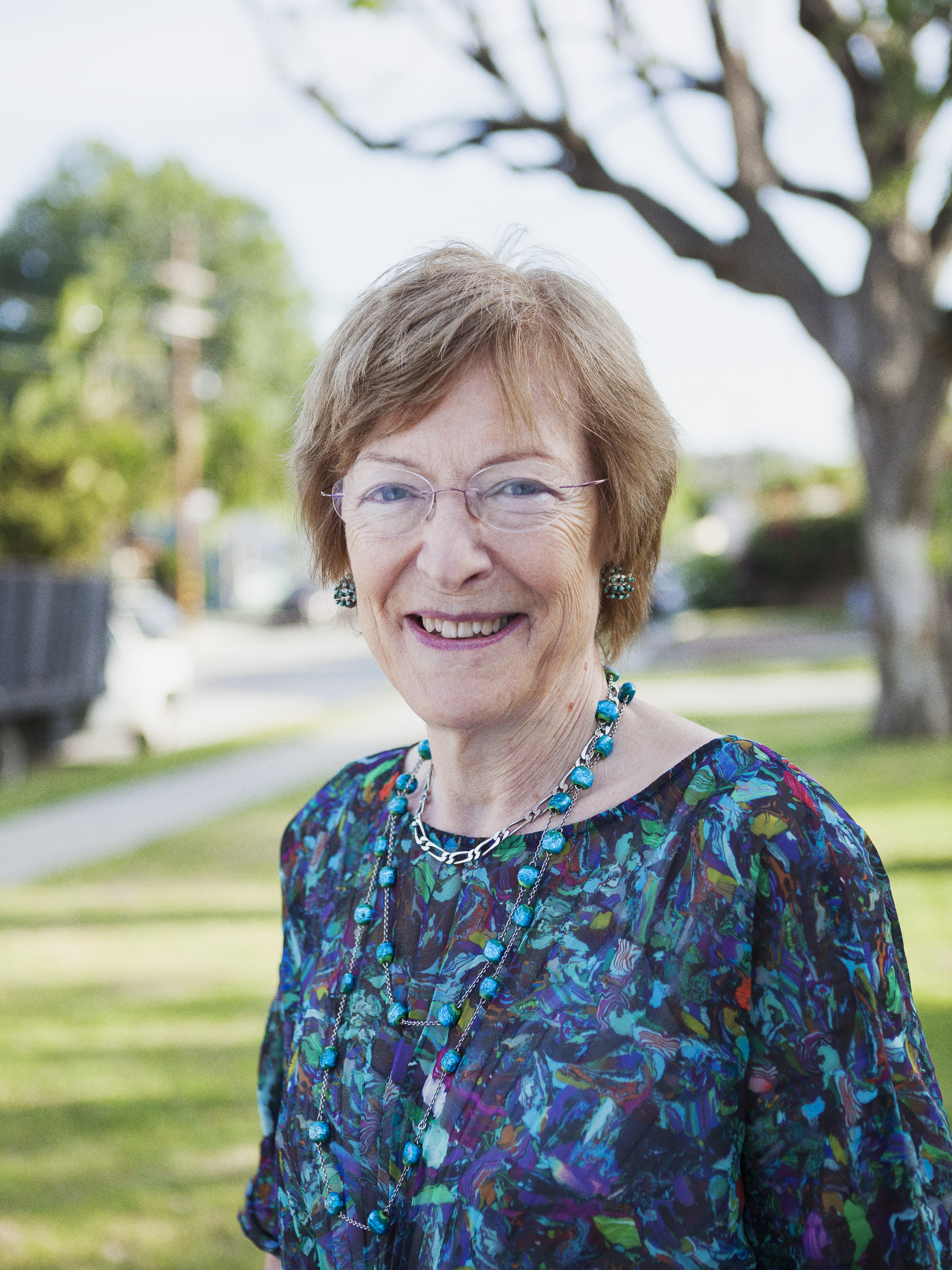 Judith Herrin, emeritus hoogleraar klassieke en late oudheid, King’s College London (Verenigd Koninkrijk), krijgt de Dr. A.H. Heinekenprijs voor de Historische Wetenschap 2016 voor haar pionierswerk op het gebied van de oude culturen van de mediterrane wereld en het identificeren van de cruciale plaats van het Byzantijnse Rijk in de wereldgeschiedenis. Bij gebruik van de foto's is naamsvermelding van de fotograaf verplicht: Jussi Puikkonen/KNAW. = Judith Herrin, Emeritus Professor of Late Antique and Byzantine Studies at King’s College London (UK), will receive the 2016 Dr A.H. Heineken Prize for History for her groundbreaking research into Medieval cultures in Mediterranean civilisations and for establishing the crucial significance of the Byzantine Empire in history. Re-use of these photographs must be accompanied by proper attribution: Jussi Puikkonen/KNAW